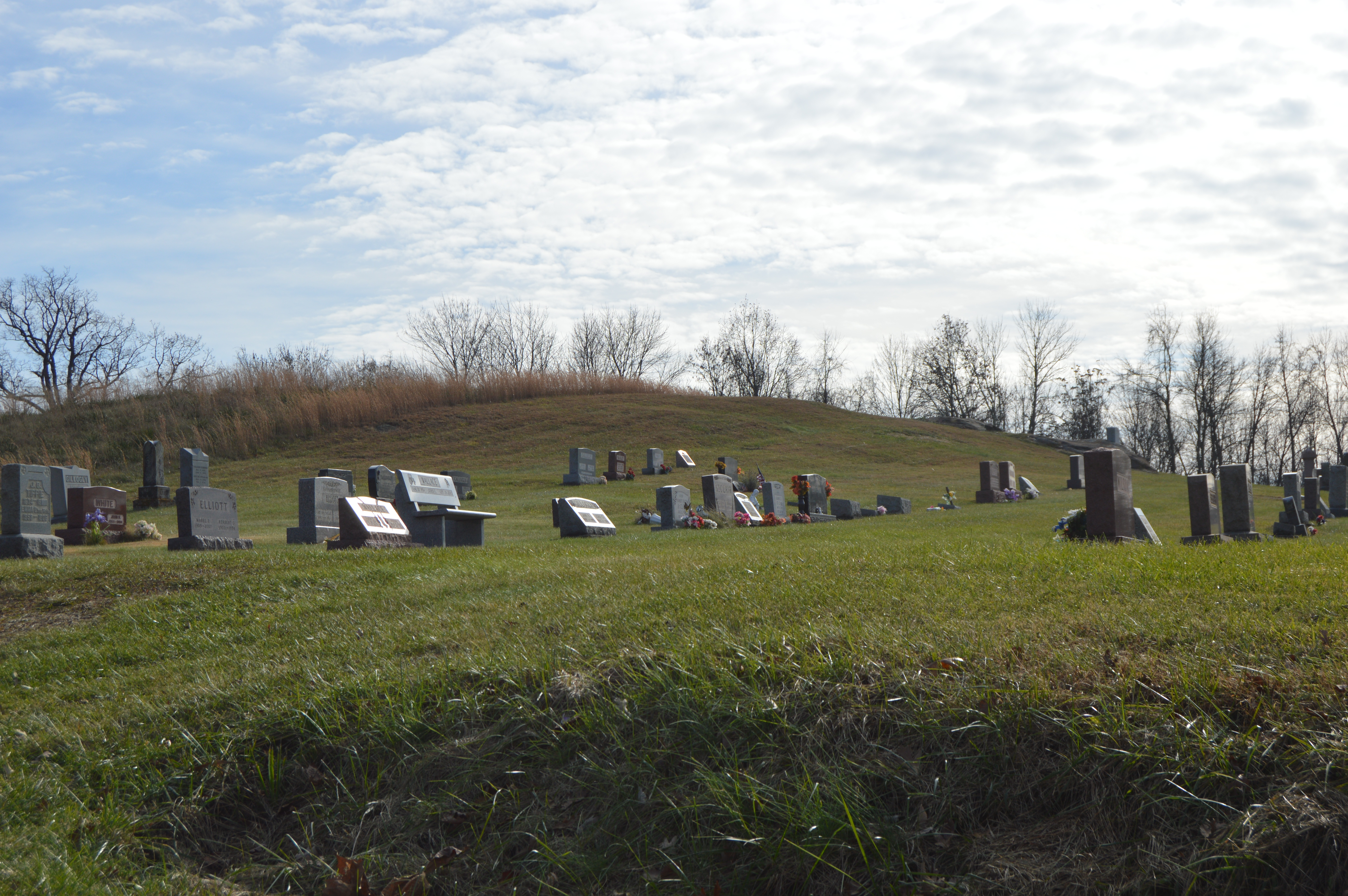 Graves at the Mount Zion Presbyterian Cemetery, located on Zion Ridge Road southeast of Chandlersville in Rich Hill Township, Muskingum County, Ohio, United States. The church building, located just to the north, has been destroyed.